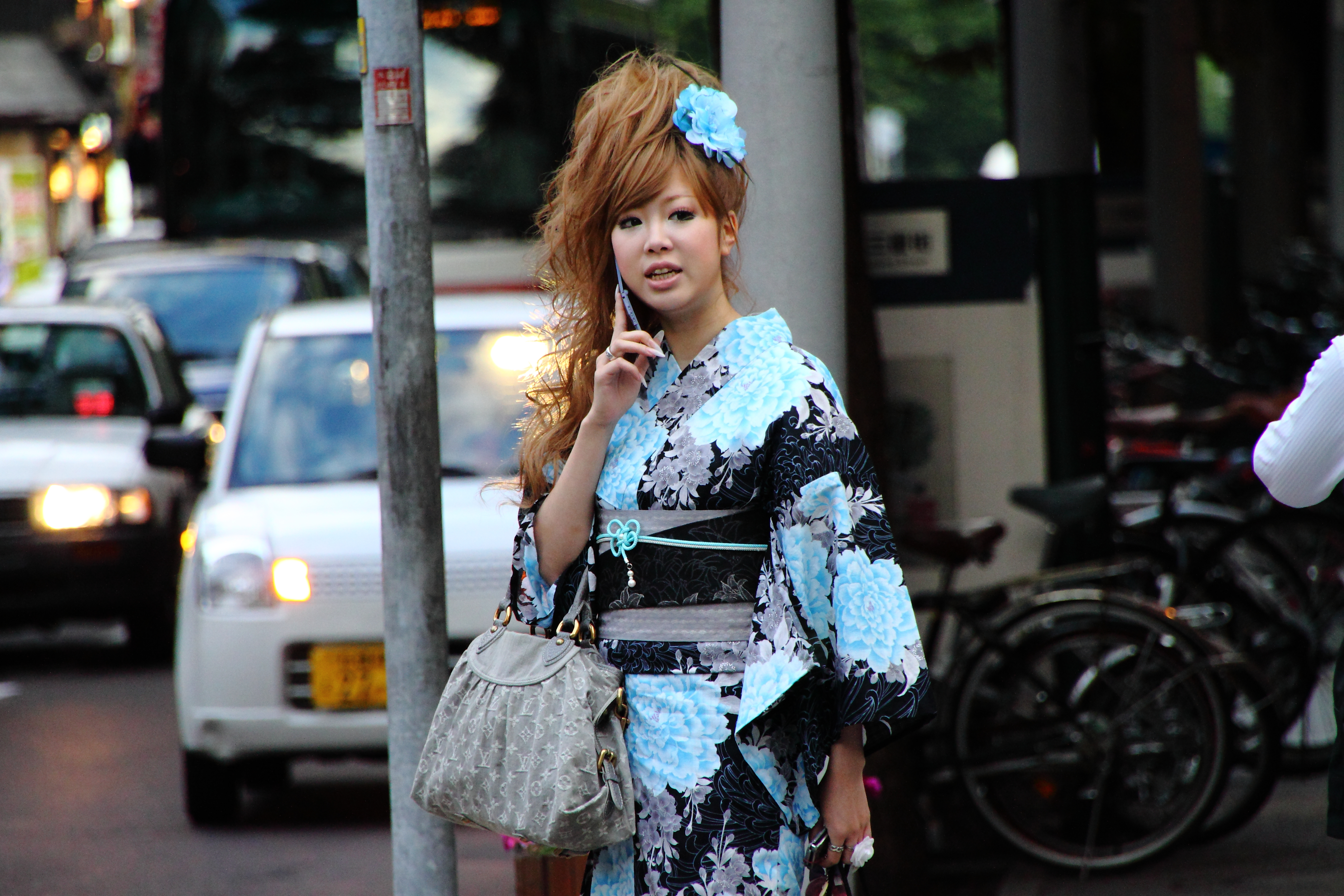 A Japanese gal. Original discription